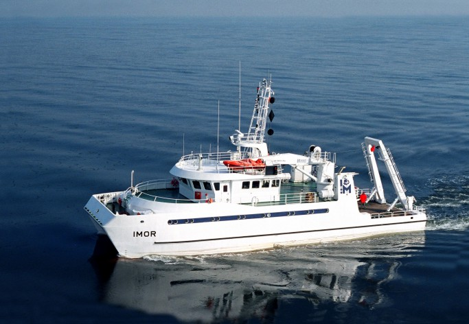 r/v IMOR